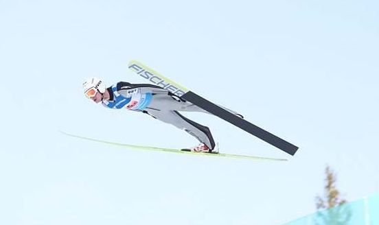 Jakub Janda during team competition of FIS Ski-Flying World Championships 2012